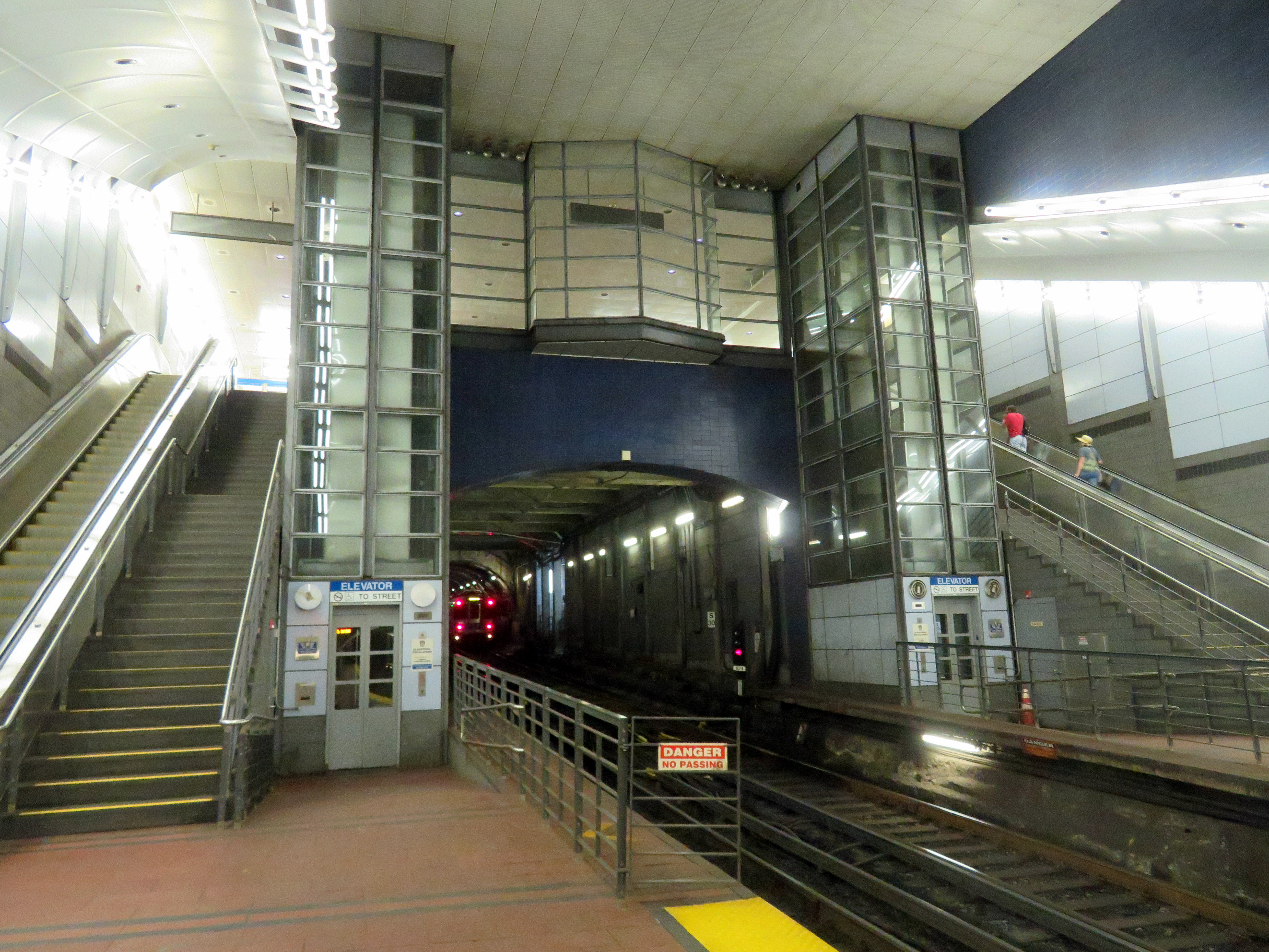 The platform elevators and stairs at the west end of Aquarium station in July 2019